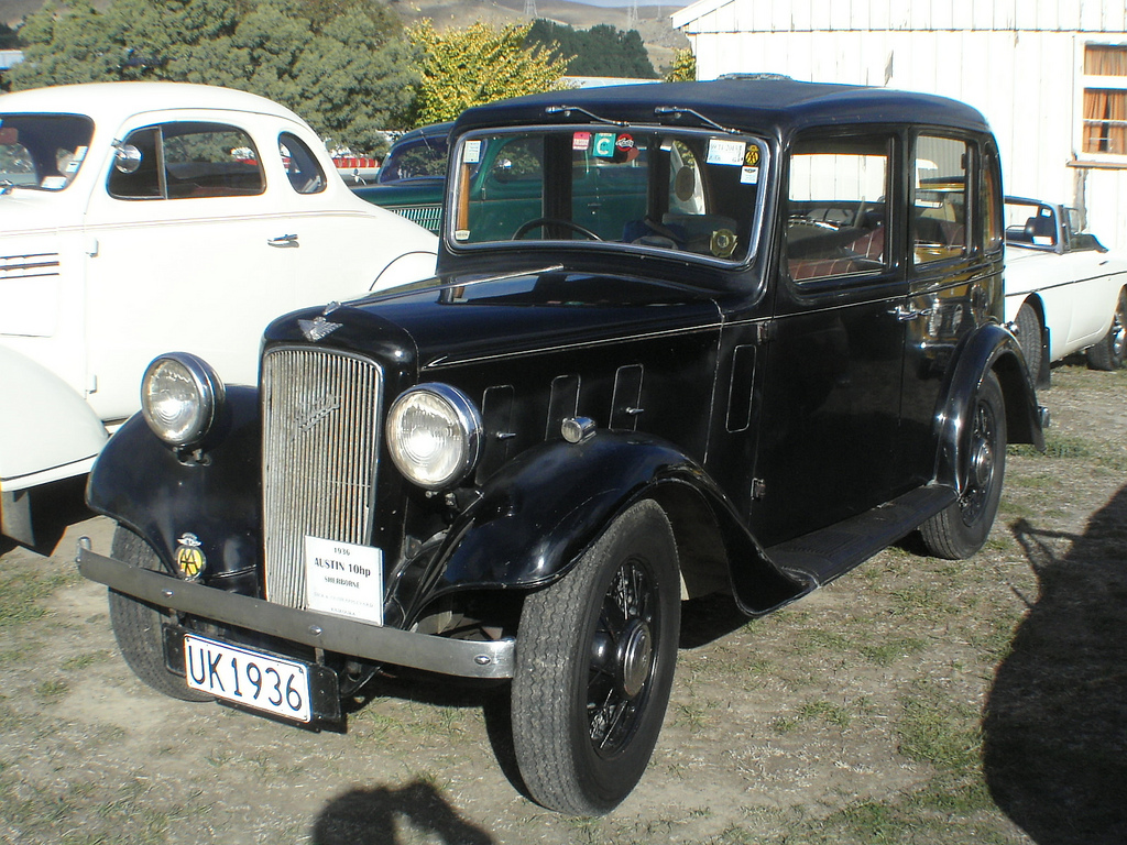 Six light four door saloon